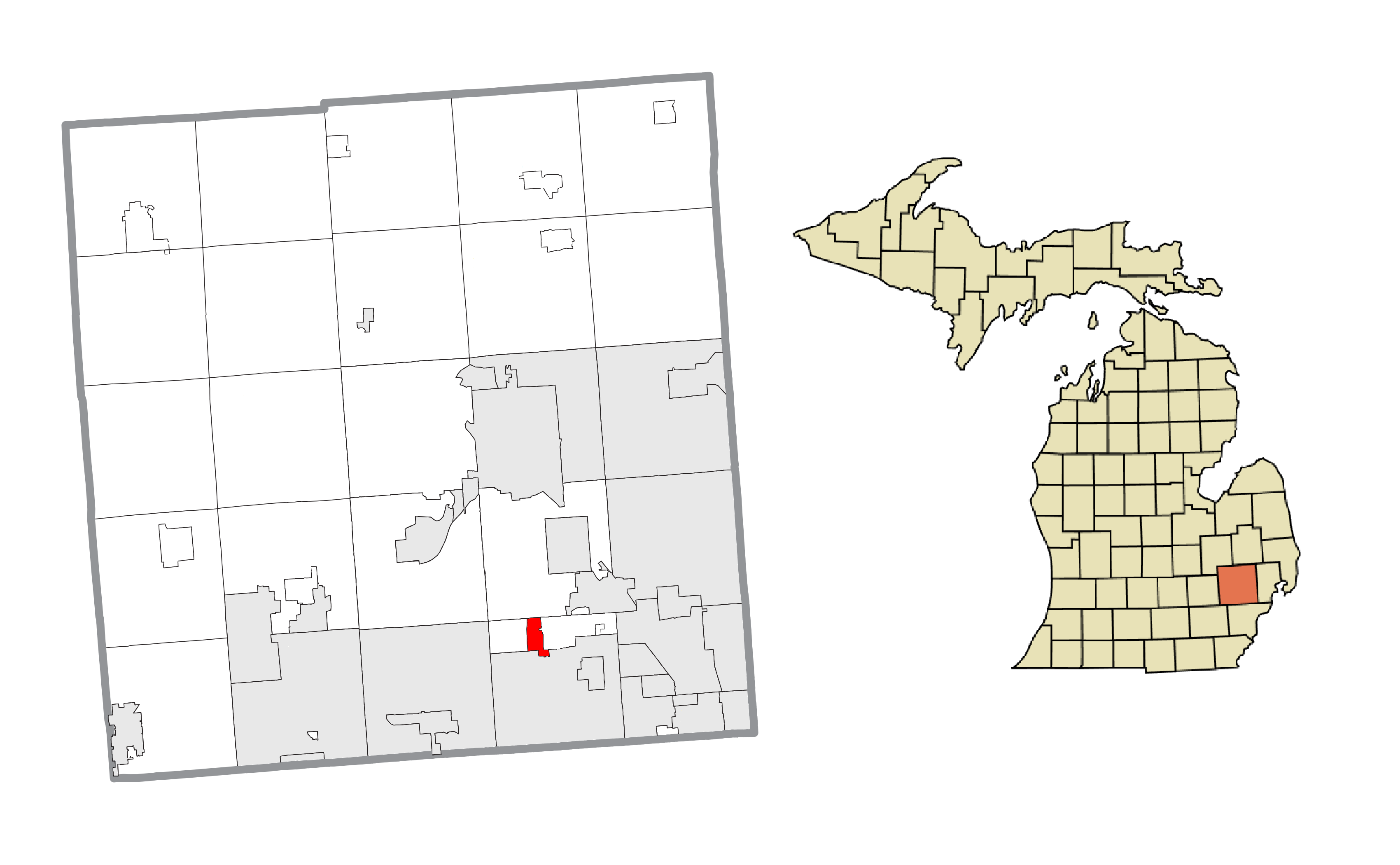 Bingham Farm, MI